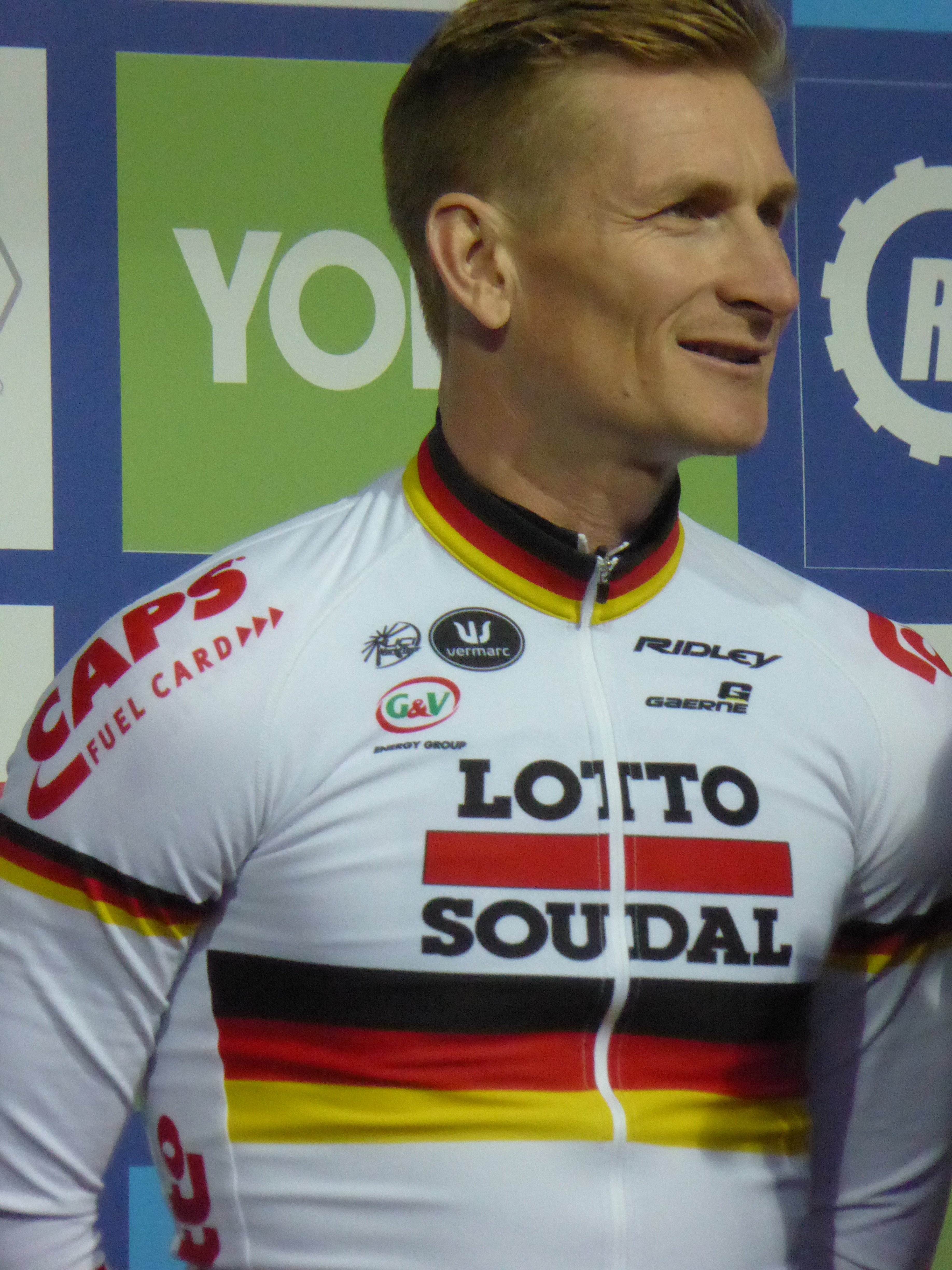 André Greipel (Lotto-Soudal), pictured in the German national champion's jersey, at the 2016 Tour of Britain team presentation in Glasgow on 3 September 2016.